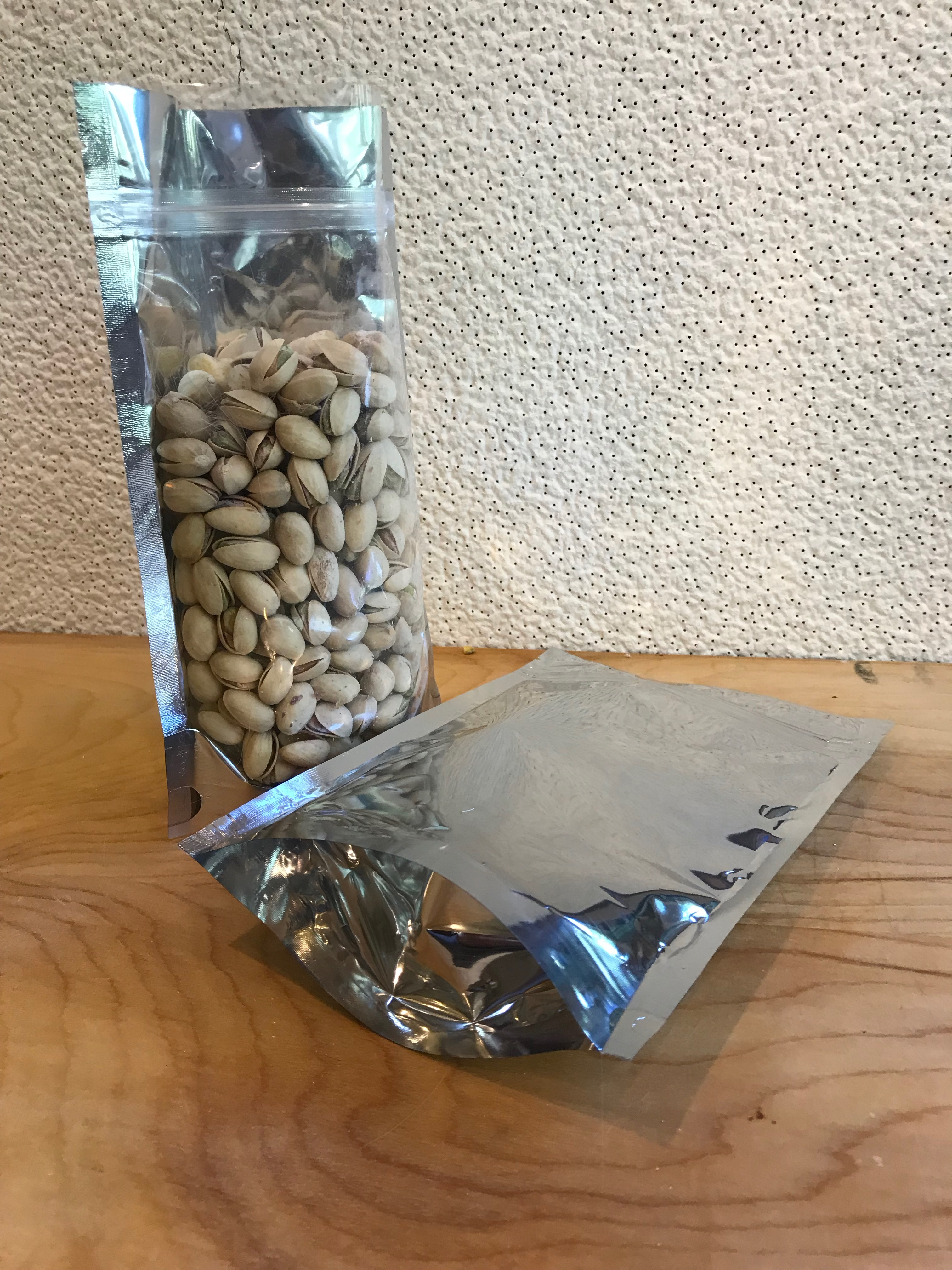 Full and empty stand-up pouches